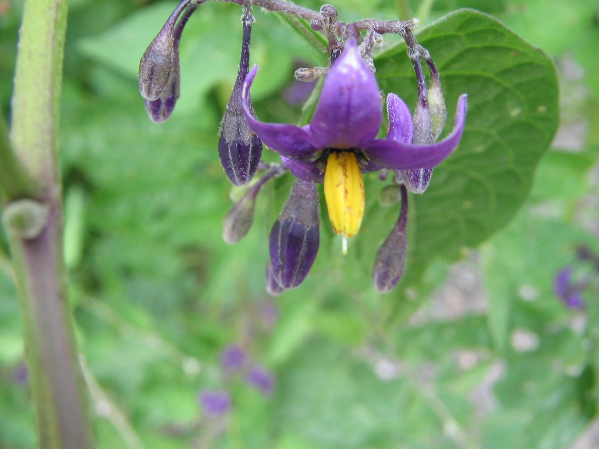 Solanum dulcamara. Close-up of a flowers. Photo is take on: Botanical garden, Tabor, Czech Republic.